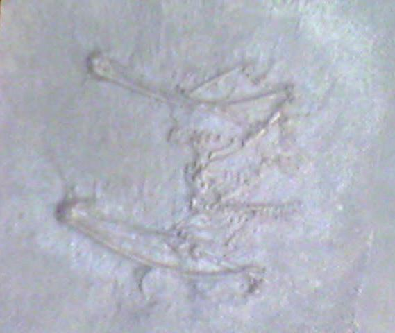 Archaeonycteris trigonodon fossil from the Muséum National d'Histoire Naturelle (Paris, France)